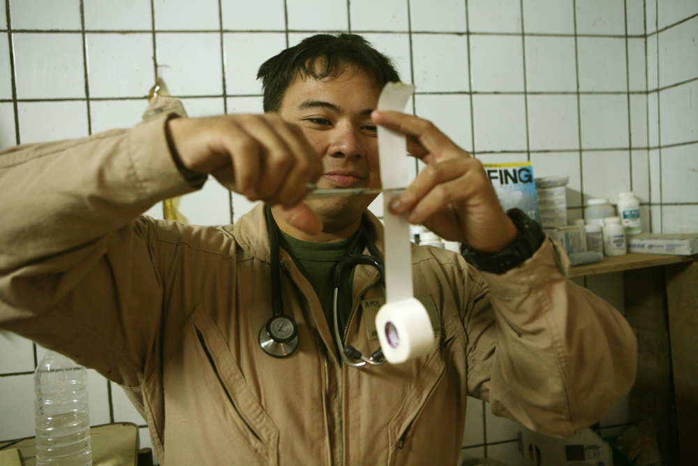 Petty Officer 2nd Class Jason C. Deguzman, a corpsman with Team Mustang, 2nd Light Armored Reconnaissance Battalion, Regimental Combat Team 5, cuts a strip of medical tape at Patrol Base Rio Grande, Iraq, May 10. The sailor, whom Marines with 2nd LAR have nicknamed "Gus," has been awarded two Bronze Star Awards, one with a combat distinguishing device, a Purple Heart and was meritoriously promoted to his present rank for actions in two previous combat tours. "I have always wanted to be a nurse or a doctor," said Deguzman, 24, from Santa Rosa, Calif. "I knew that becoming a Navy corpsman would be the first step for me."